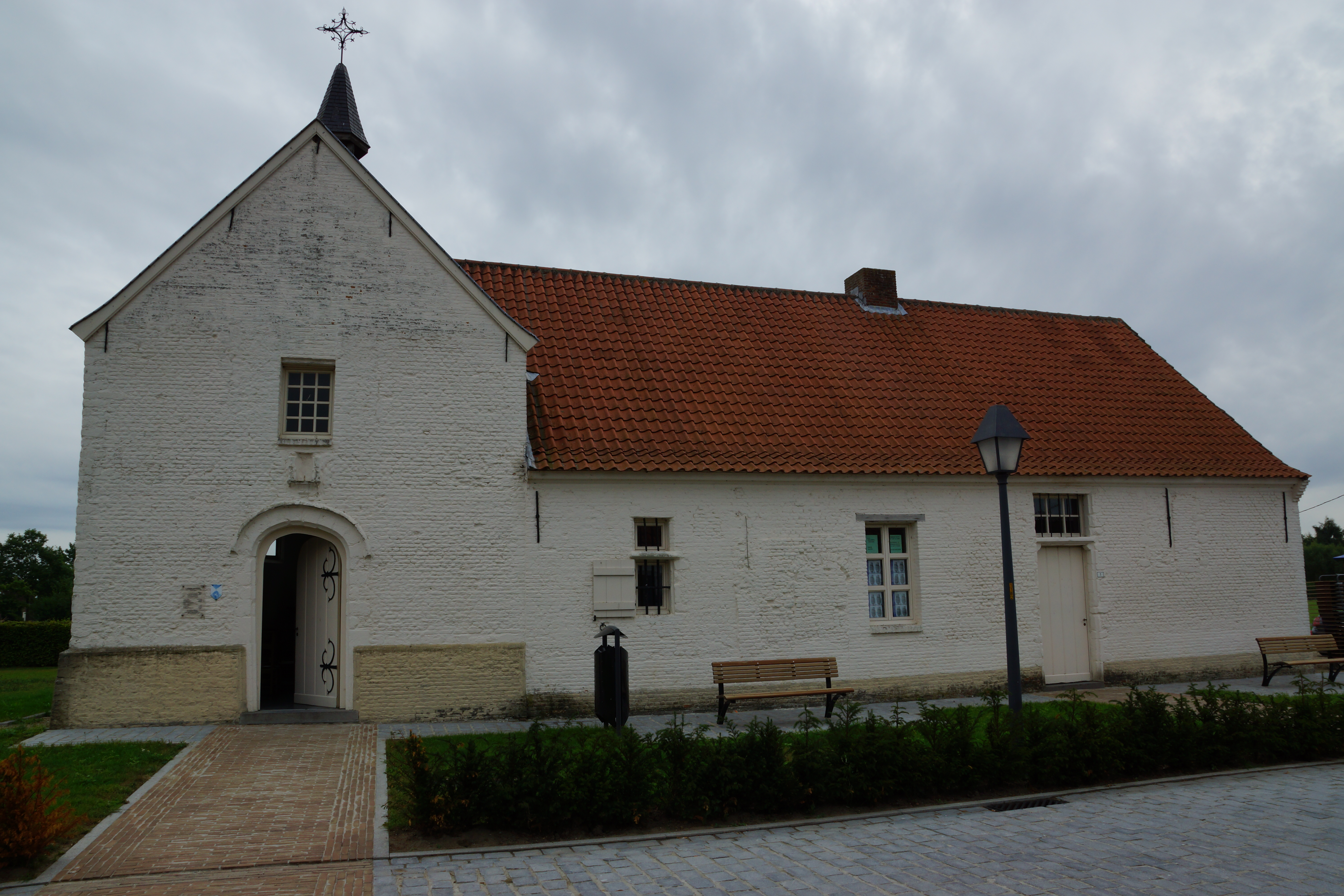 Rumst, Belgium: Lazarus of Bethany Chapel